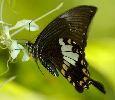 Yellow Helen(Papilio nephelus) feeding on nectar. Taken by Arif Siddiqui. Posted on commons with kind permission of author.